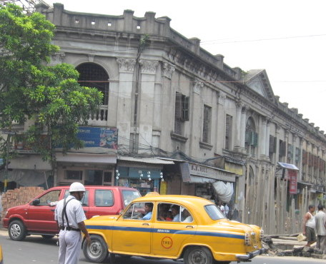 Own photograph